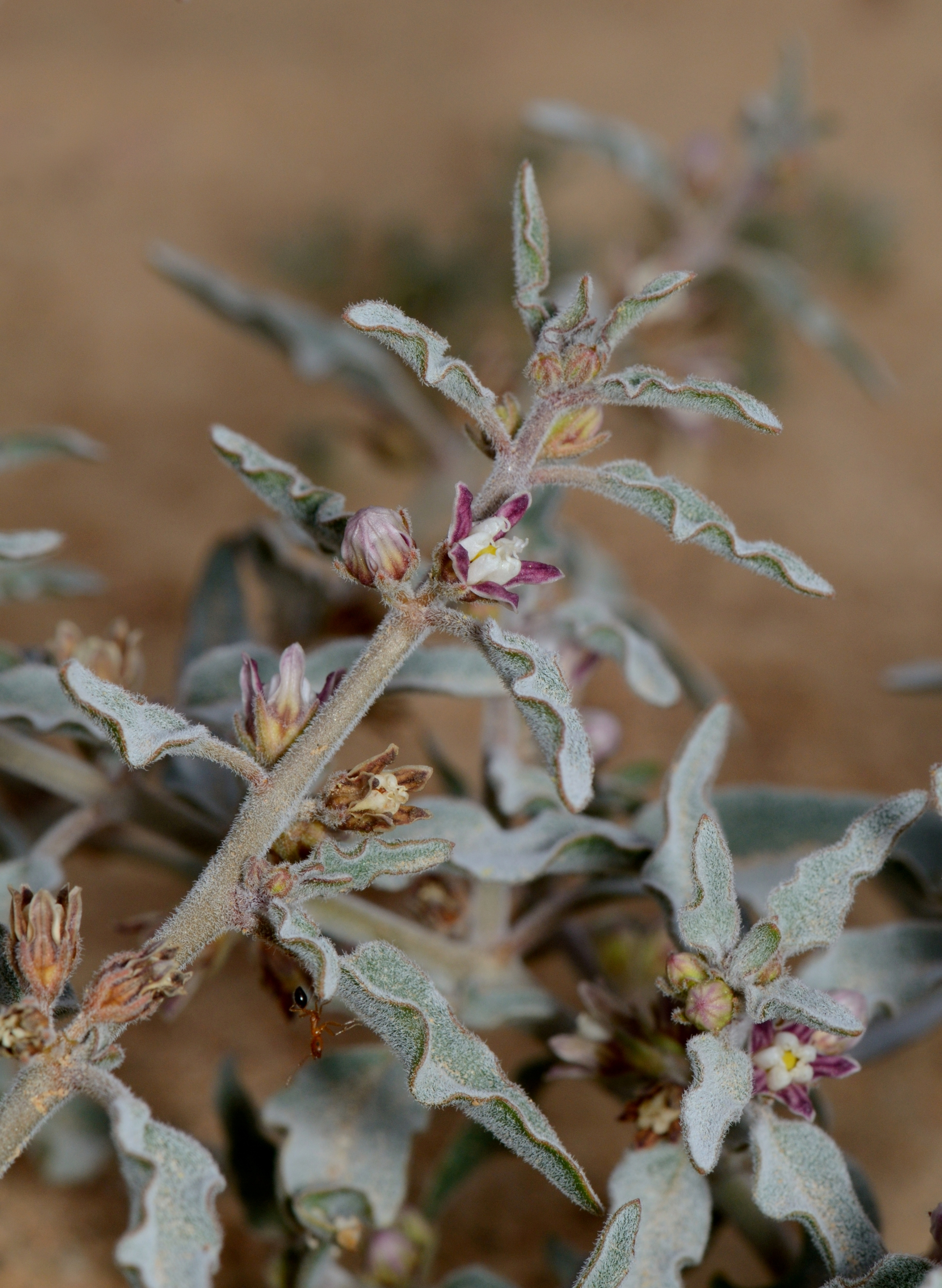 Glossonema boveanum (Decne.) Decne., Eilat, Israel, January 17, 2013.